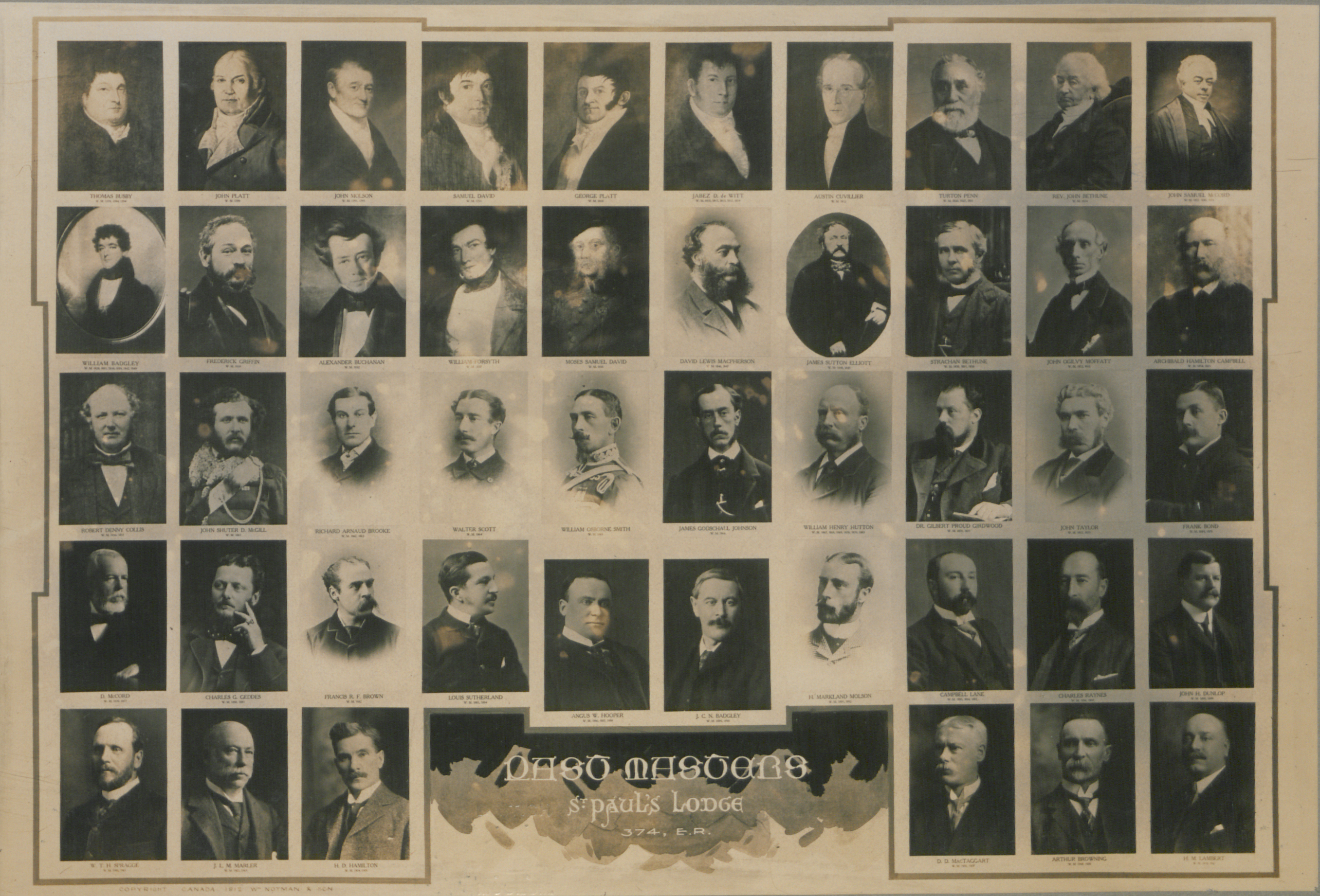 Past masters, St. Paul's Lodge, 374, E.R.[montage of 36 photographs].